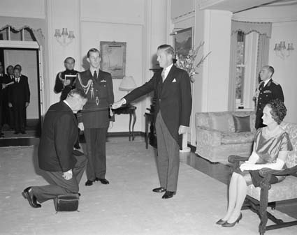 Royalty - Vice regal - Investiture at Government House, Canberra, 26 October 1961 - Investiture of Sir Charles Moses by the Governor General Viscount De L'Isle